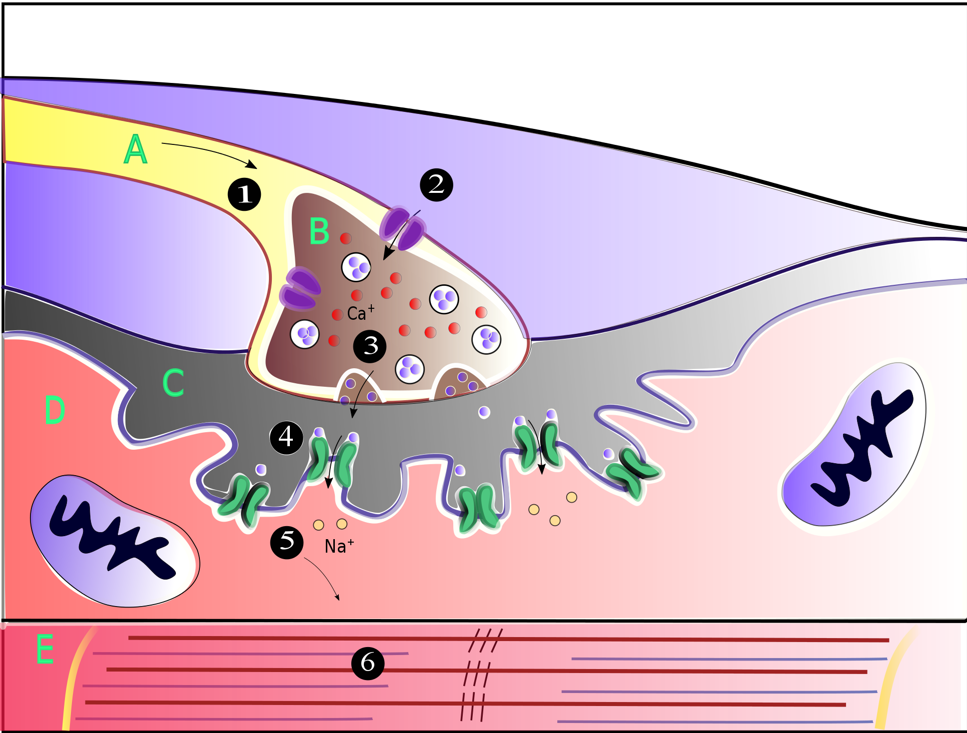 Muscles will contract or relax when they receive signals from the nervous system. The neuromuscular junction is the site of the signal exchange. The steps of this process in vertebrates occur as follows: (1) The action potential reaches the axon terminal. (2) Voltage-dependent calcium gates open, allowing calcium to enter the axon terminal. (3) Neurotransmitter vesicles fuse with the presynaptic membrane and acetylcholine (ACh) is released into the synaptic cleft via exocytosis. (4) ACh binds to postsynaptic receptors on the sarcolemma. (5) This binding causes ion channels to open and allows sodium ions to flow across the membrane into the muscle cell. (6) The flow of sodium ions across the membrane into the muscle cell generates an action potential which travels to the myofibril and results in muscle contraction. Labels: A: Motor Neuron Axon B: Axon Terminal C. Synaptic Cleft D. Muscle Cell E. Part of a Myofibril